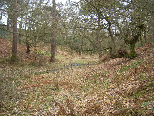 Acton Dene